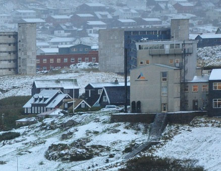 The building of Vinnuháskúlin in Tórshavn.